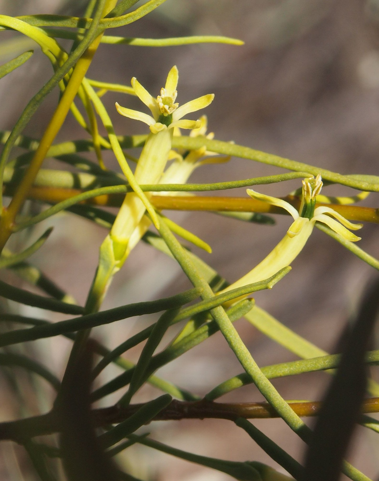 Lysiana murrayi flower